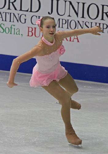 Ivana Reitmayerova (SVK) during her free skate at the 2009 World Junior Figure Skating Championships.